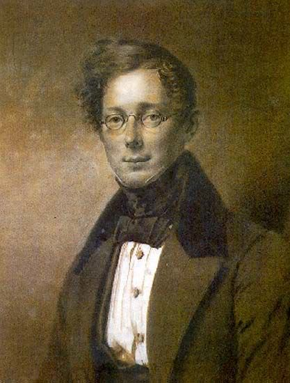 Portrait Smirnov N.M.